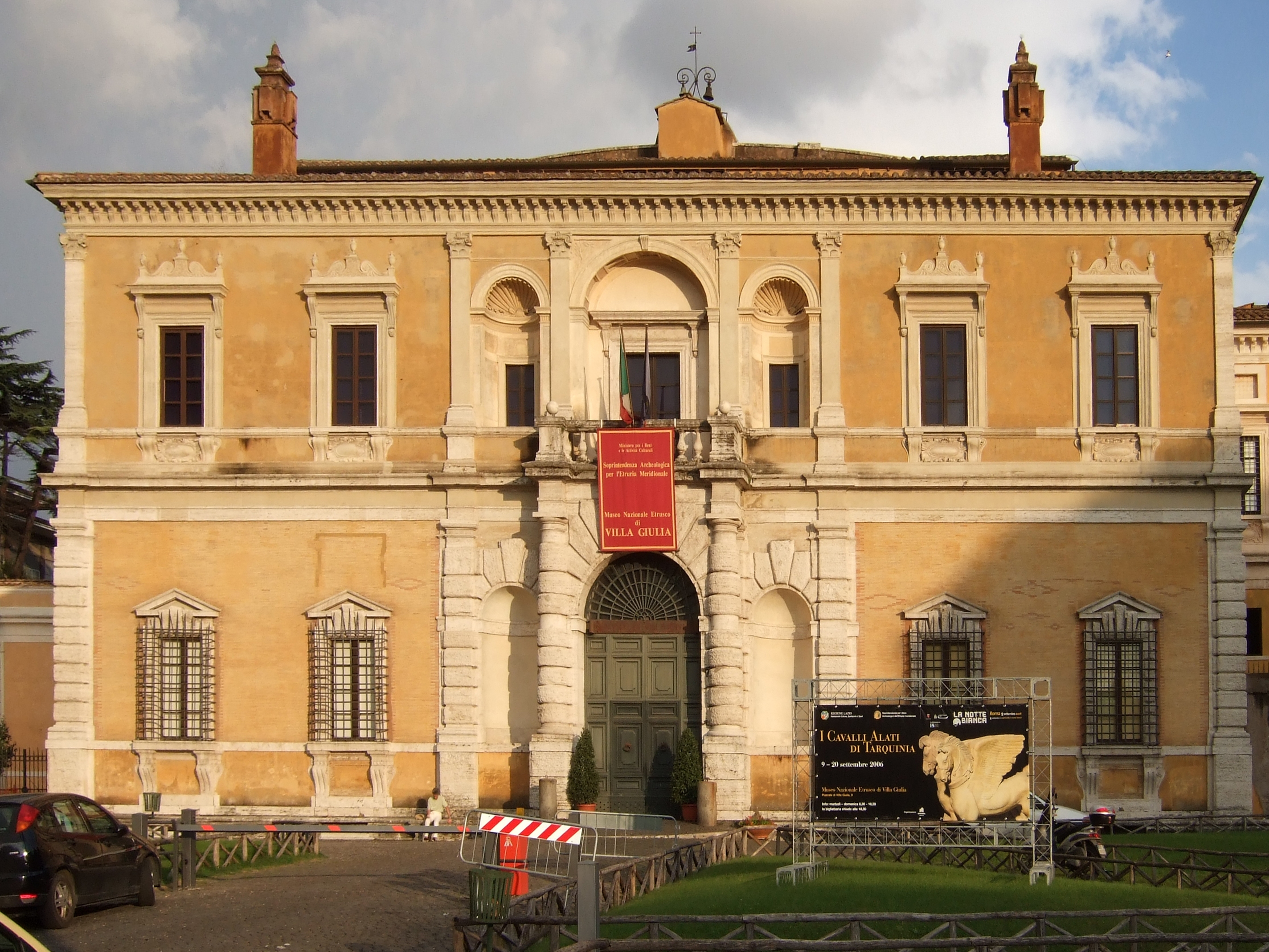 The facade of Villa Giulia in Rome, Italy. It houses the National Etruscan Museum ("Museo nazionale etrusco di Villa Giulia"). This is a modified version of the following picture: Image:Villa Giulia.jpg, uploaded by Kuifje on 21:29, 10 October 2006